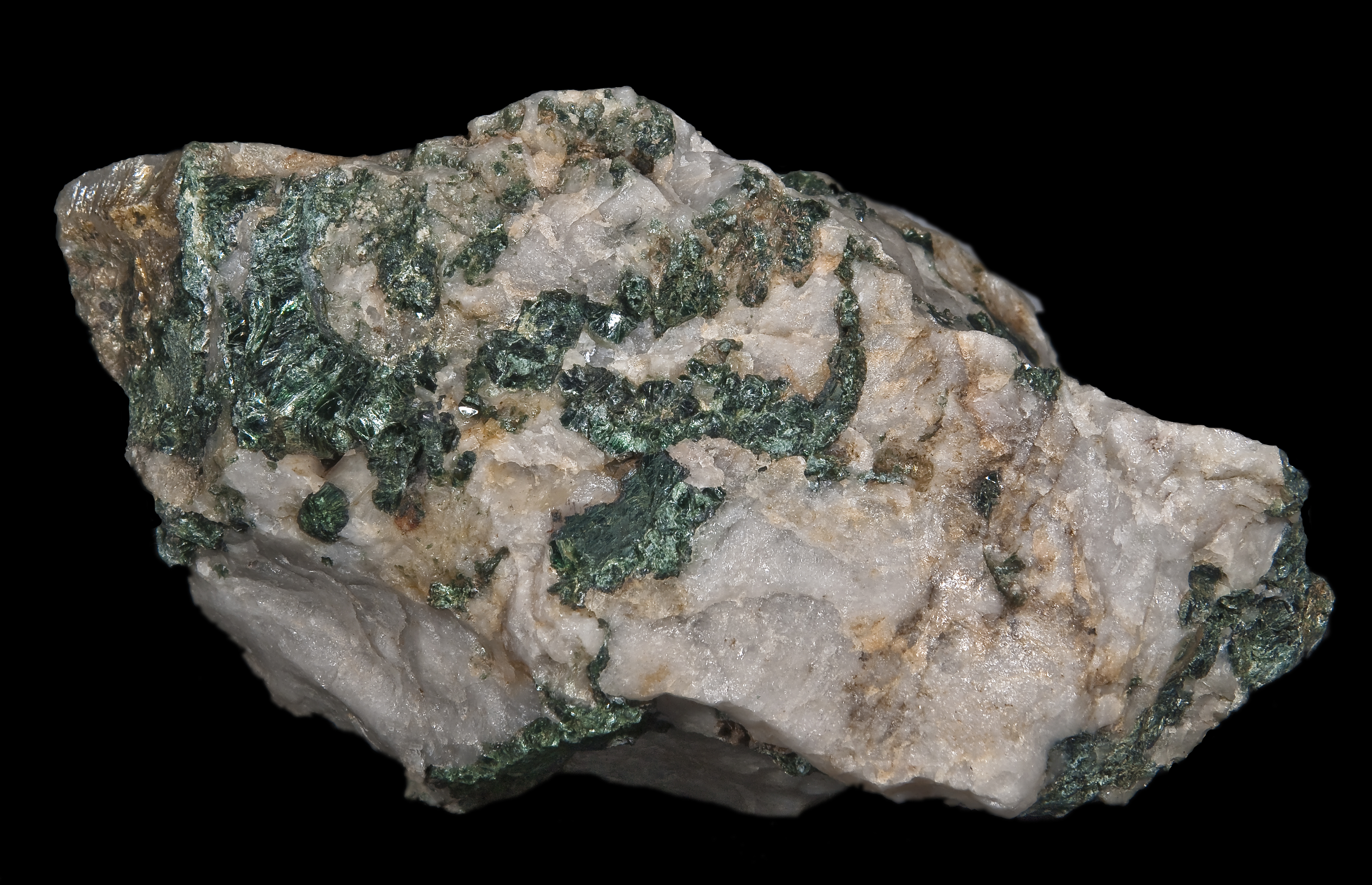 Chamosite (Var. Thuringite Klementite) - Vielsalm, Stavelot Massif, Luxembourg Province, Belgium - 9cm